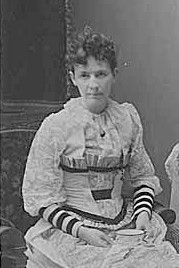 Emily Inez Denny and Oyshu